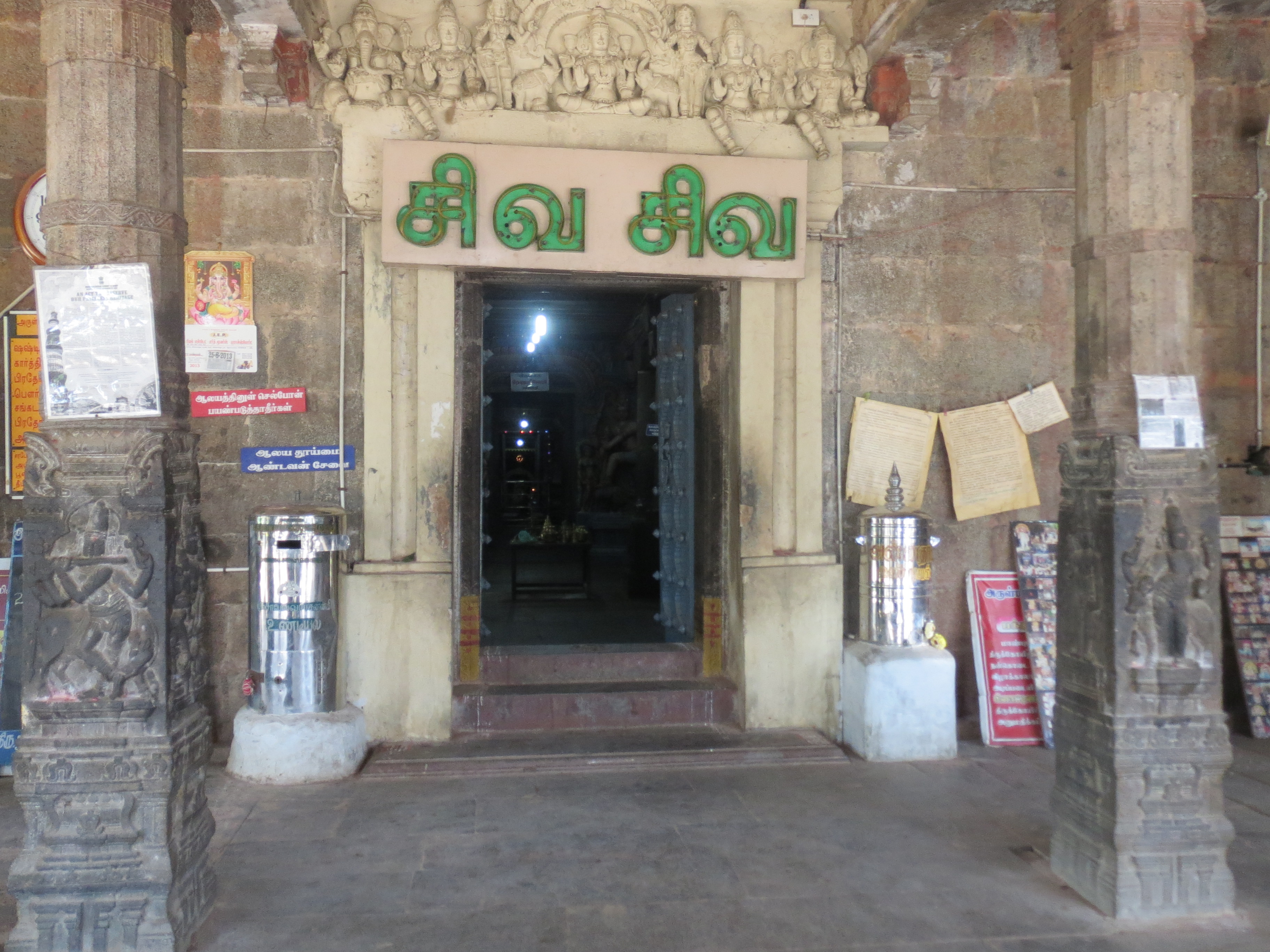 Interior view of Thenupureeswarar koil at Madambakkam near Tambaram. Tamil:மாடம்பாக்கம் தேனுபுரீசுவரர் கோயில் உட்தோற்றம்.